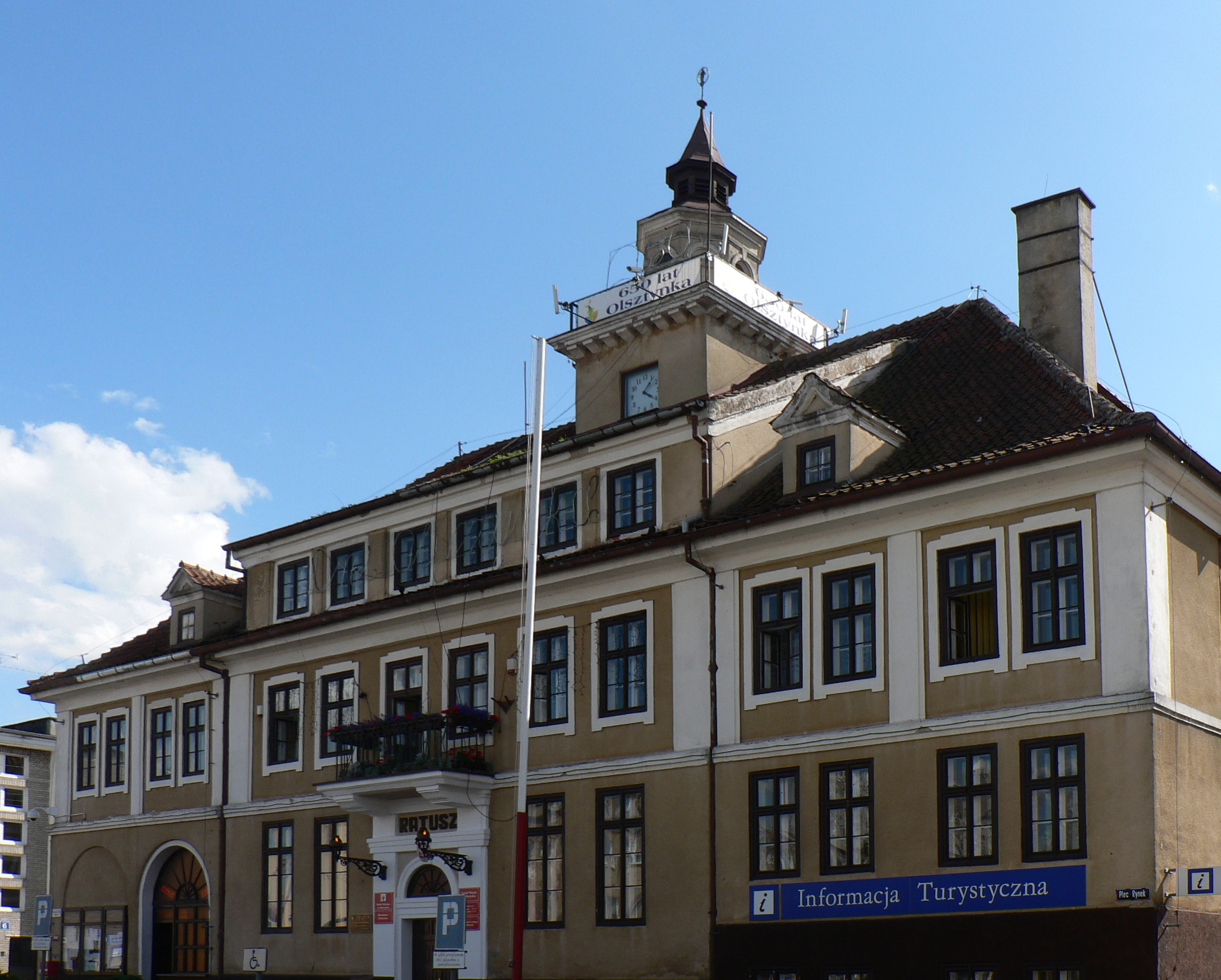 Town hall in Olsztynek